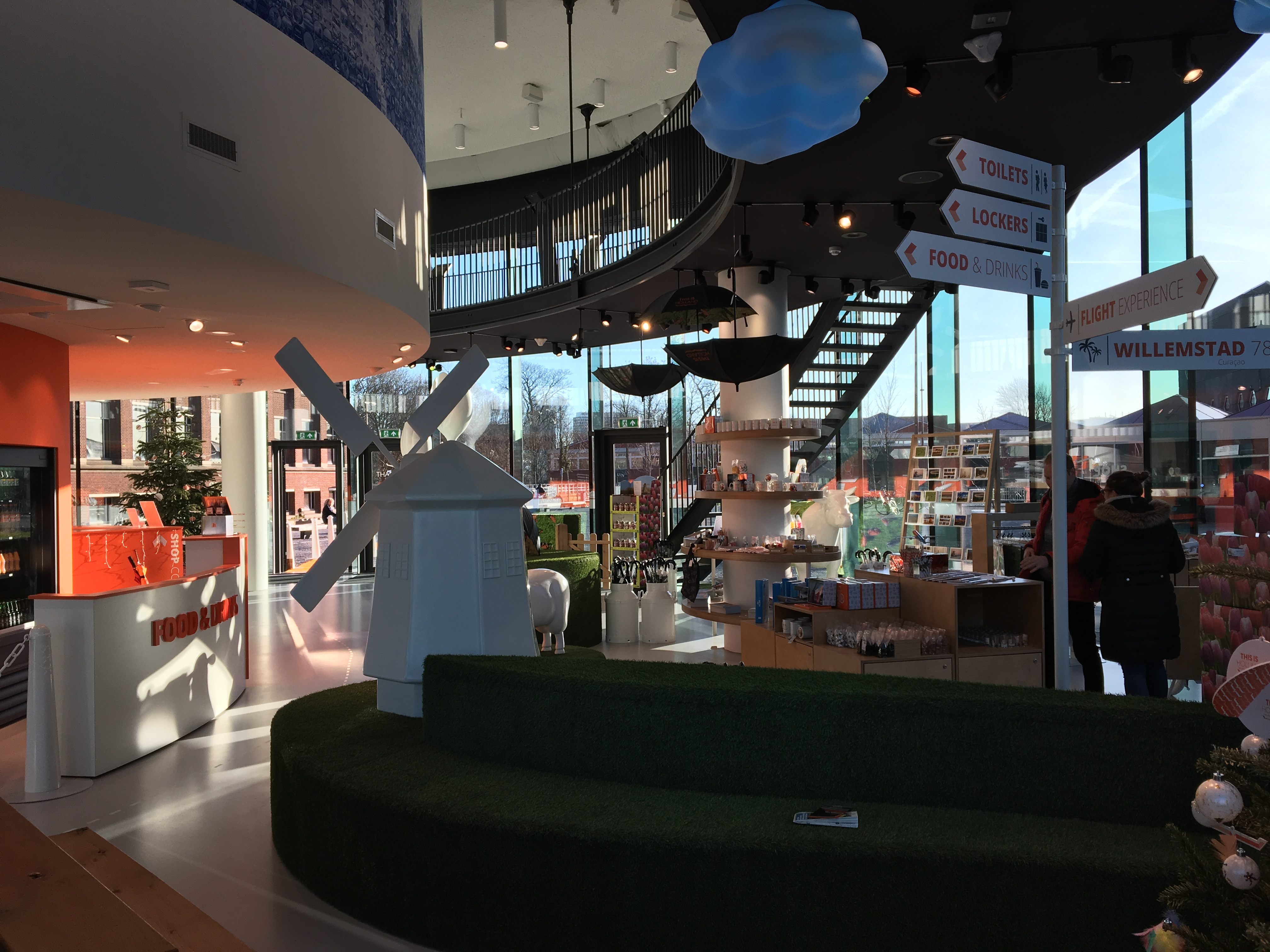 This Is Holland 4d movie